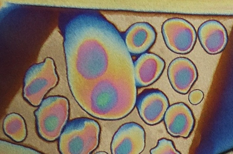 Made by Mauro Cateb, Brazilian jeweler and silversmith.